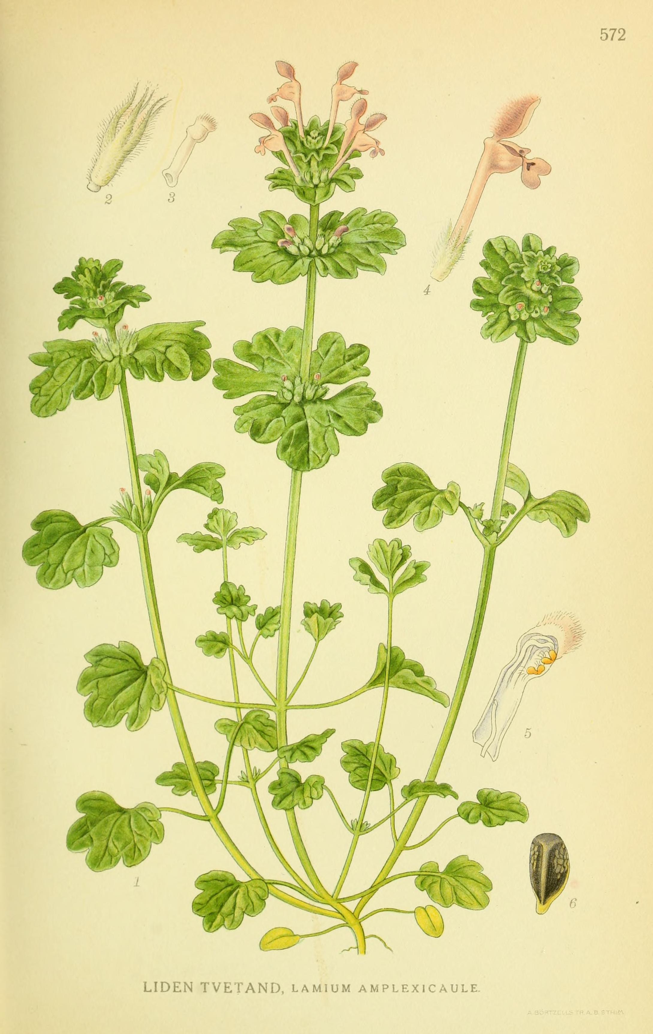 Title: Billeder af nordens flora Year: 1917 (1910s) Authors: Mentz, August, 1867-1944; Ostenfeld, C. H. (Carl Hansen), 1873-1931 Subjects: Plants; Plants; Plants Publisher: København, G. E. C. Gad's forlag Text Appearing Before Image: 572 Text Appearing After Image: LIDEN TVETAND, lamium amplexicaule